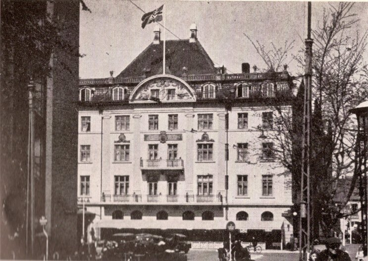 Hotel Royal, Aarhus 1940. Flying the Swastika flag.